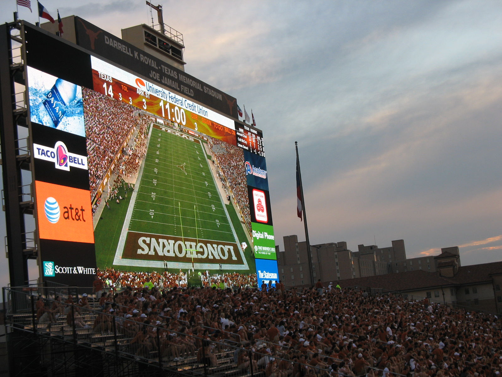 Godzillatron at Darrell K. Royal Texas Memorial Stadium during a Texas Football game.